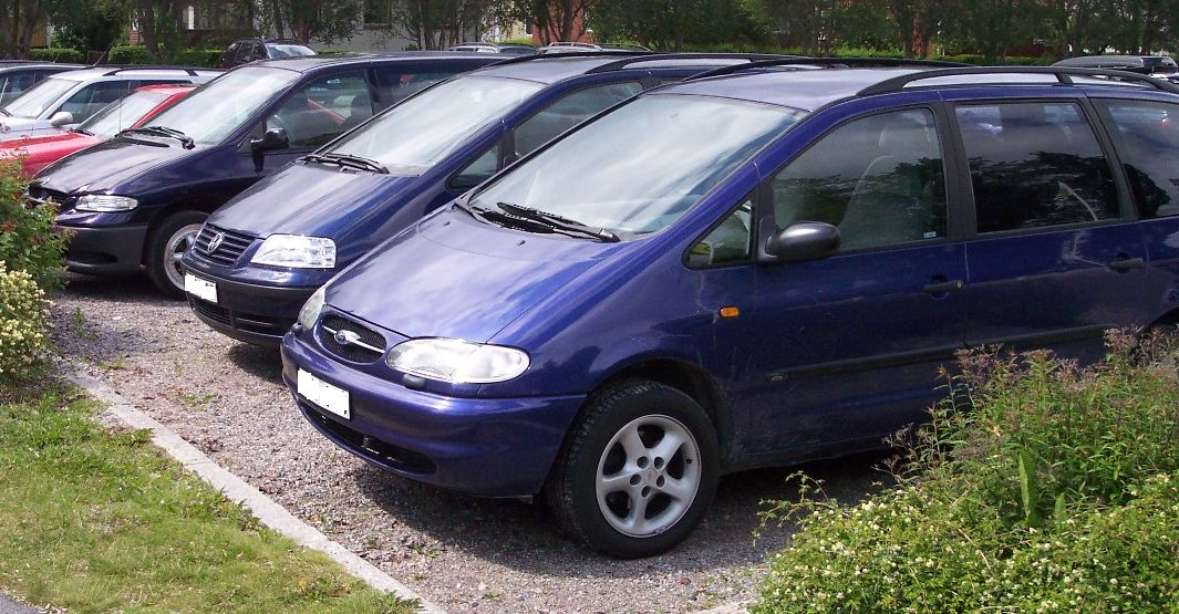 Vans: Ford Galaxy, VW Sharan, Chrysler Voyager